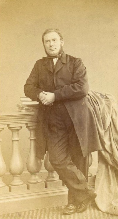 Jan Willem Gunning - Dutch chemistry professor and rector magnificus